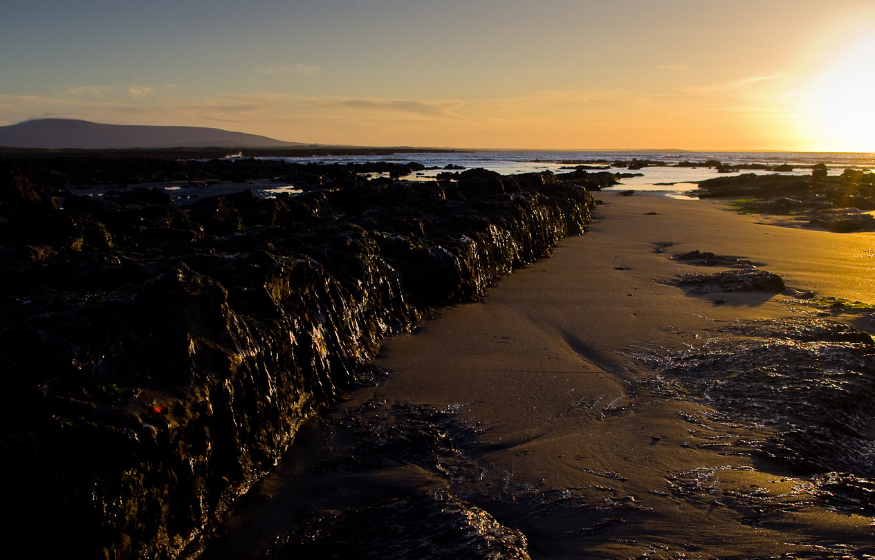 March sunset from a beach on Coney Island, Co Sligo; Knockalongy mountain visible in background